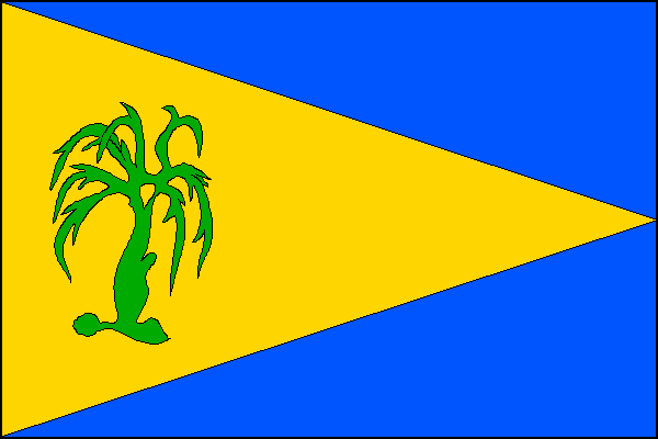 Municipal flag of Vrbice village, Břeclav District, Czech Republic.